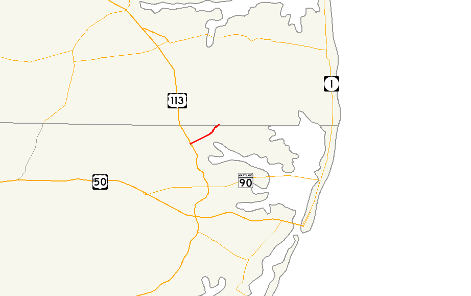 Map of Maryland 367